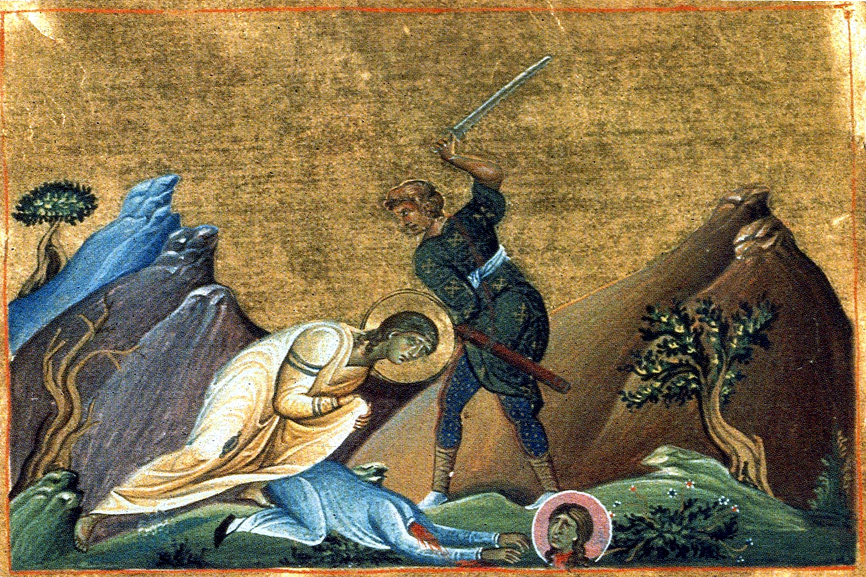 Menologion of Basil II. The Holy Great-martyr Anastasia the Deliver from Bonds,and other with her